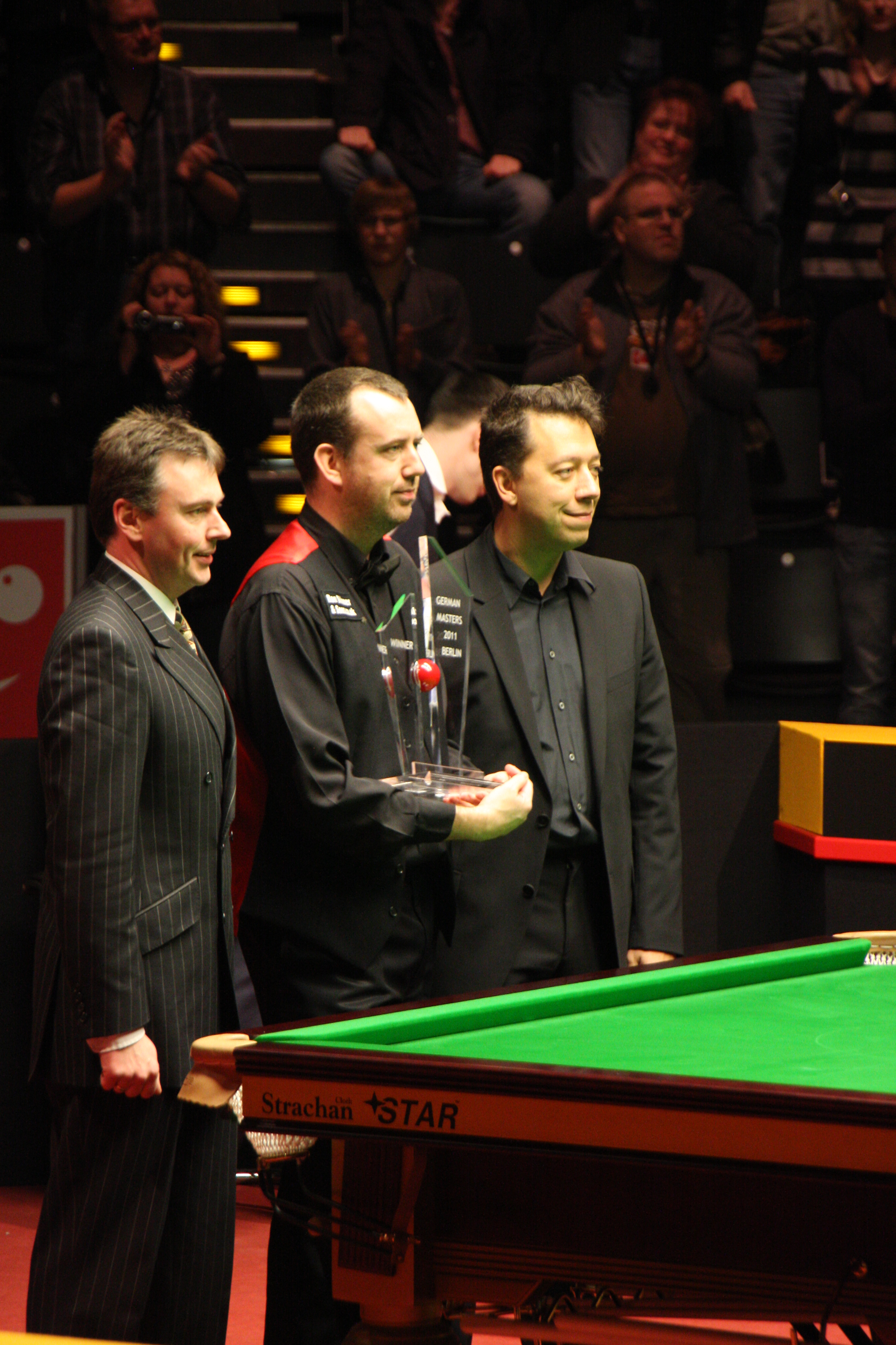 Snooker player Mark J. Williams at the en:2011 German Masters